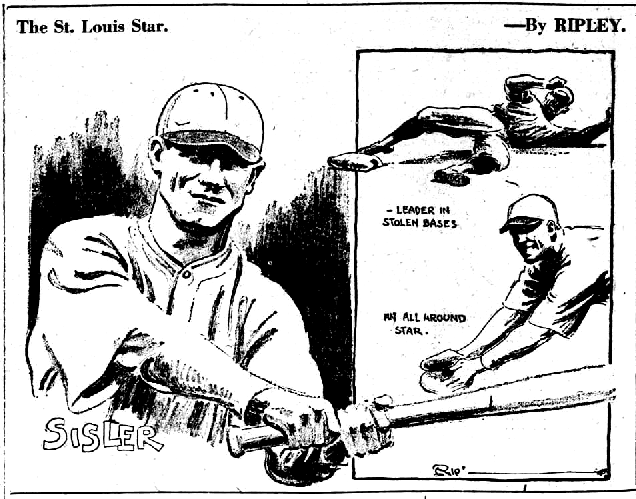 Baseball player George Sisler drawn by Robert Ripley.